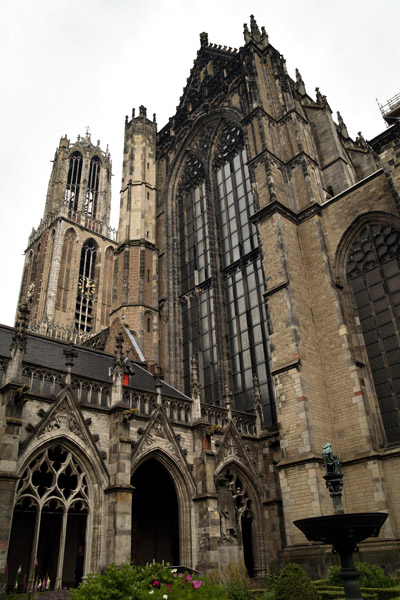 Domkerk, Utrecht, Utrecht.